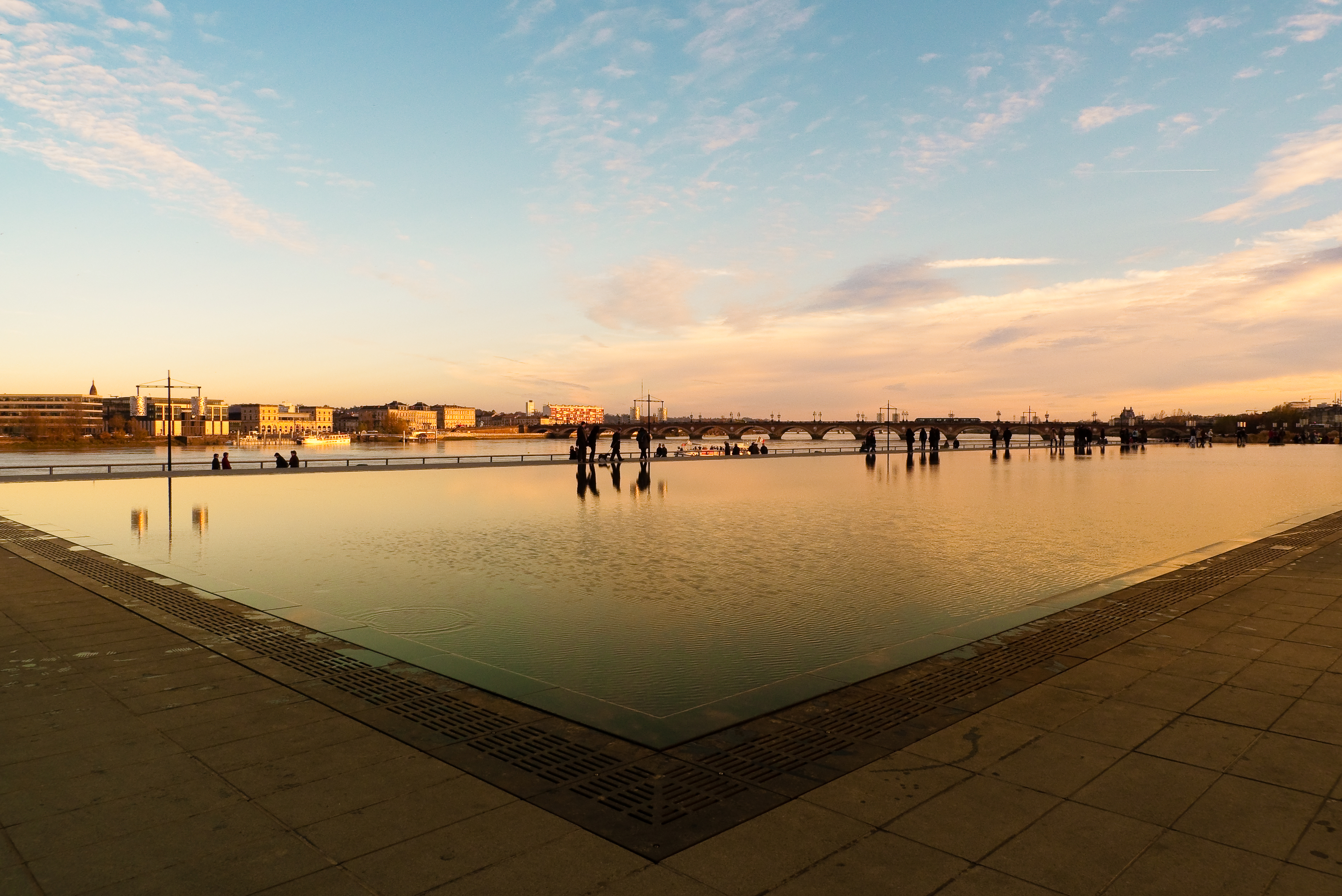 Water Mirror, Bordeaux, France.